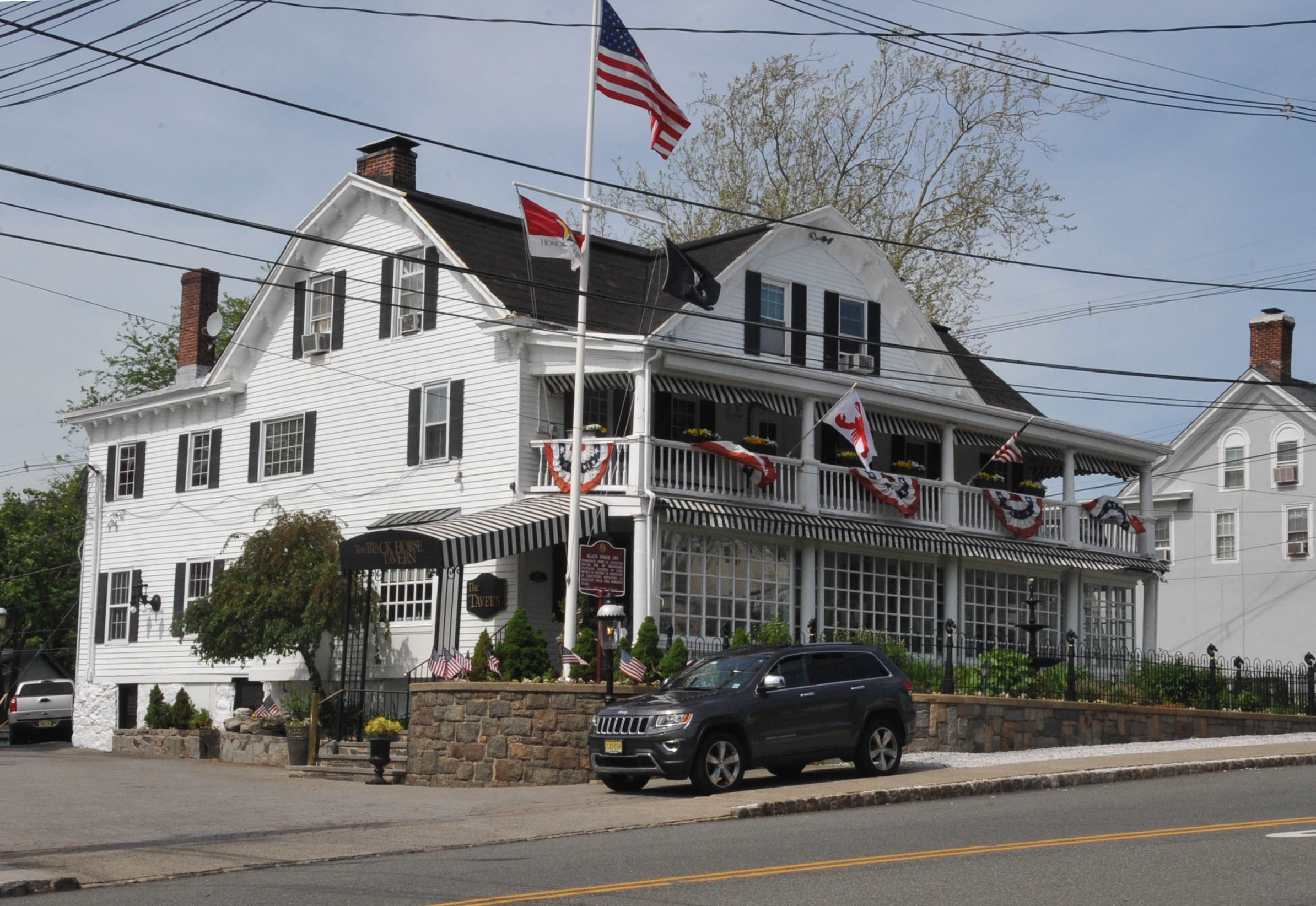 BLACK HORSE INN LOCATED IN THE FARMHOUSE OF EBENEZER BYRAM, ONE OF MENDHAM’S FOUDERS. IN 1742 IT OPENED AS A TAVERN AND HAS BEEN INB CONTINUOUS OPERATION SINCE THEN.